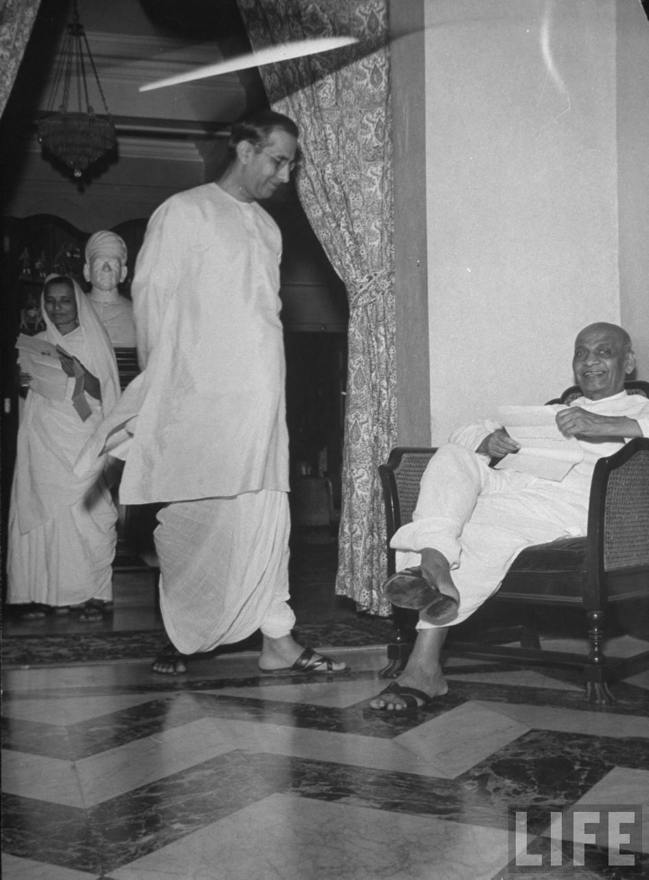 Indian Industrialist G. D. Birla (L) chatting wtih his visitor Vallabhbhai Patel, as Patel's daughter lingers in the background, at his palacial home.